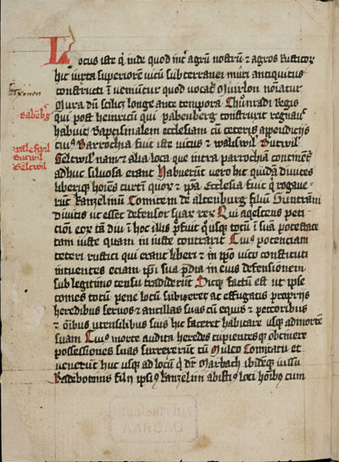 First page of the Acta Murensia, a 12th century manuscript of Muri abbey in Switzerland.